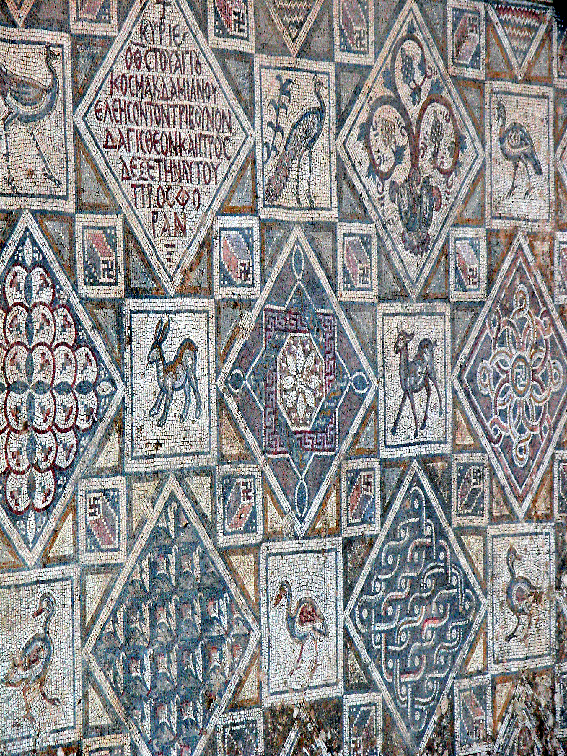 These are part of the mosaics floor in the Three Churches. Jerash, Jordan The churches are the Church of St. Cosmos and St. Damian – twin brother doctors who were martyred in the 4th Century. The Church of St. John the Baptist dates from 531 AD. The Church of St. George was built in 530 AD and continued to be used after the earthquake of 749 AD.